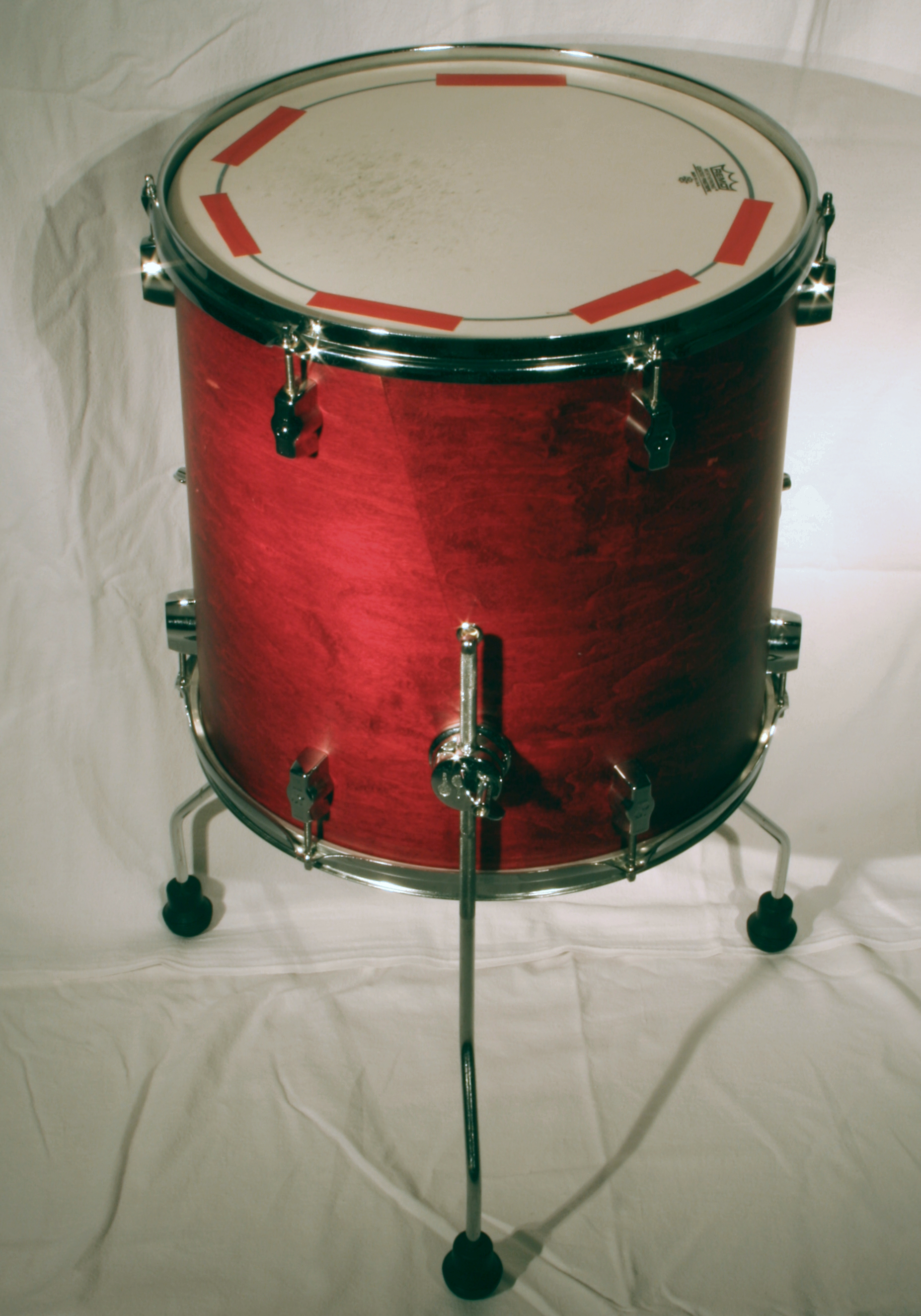 14 inches Tom by Sonor